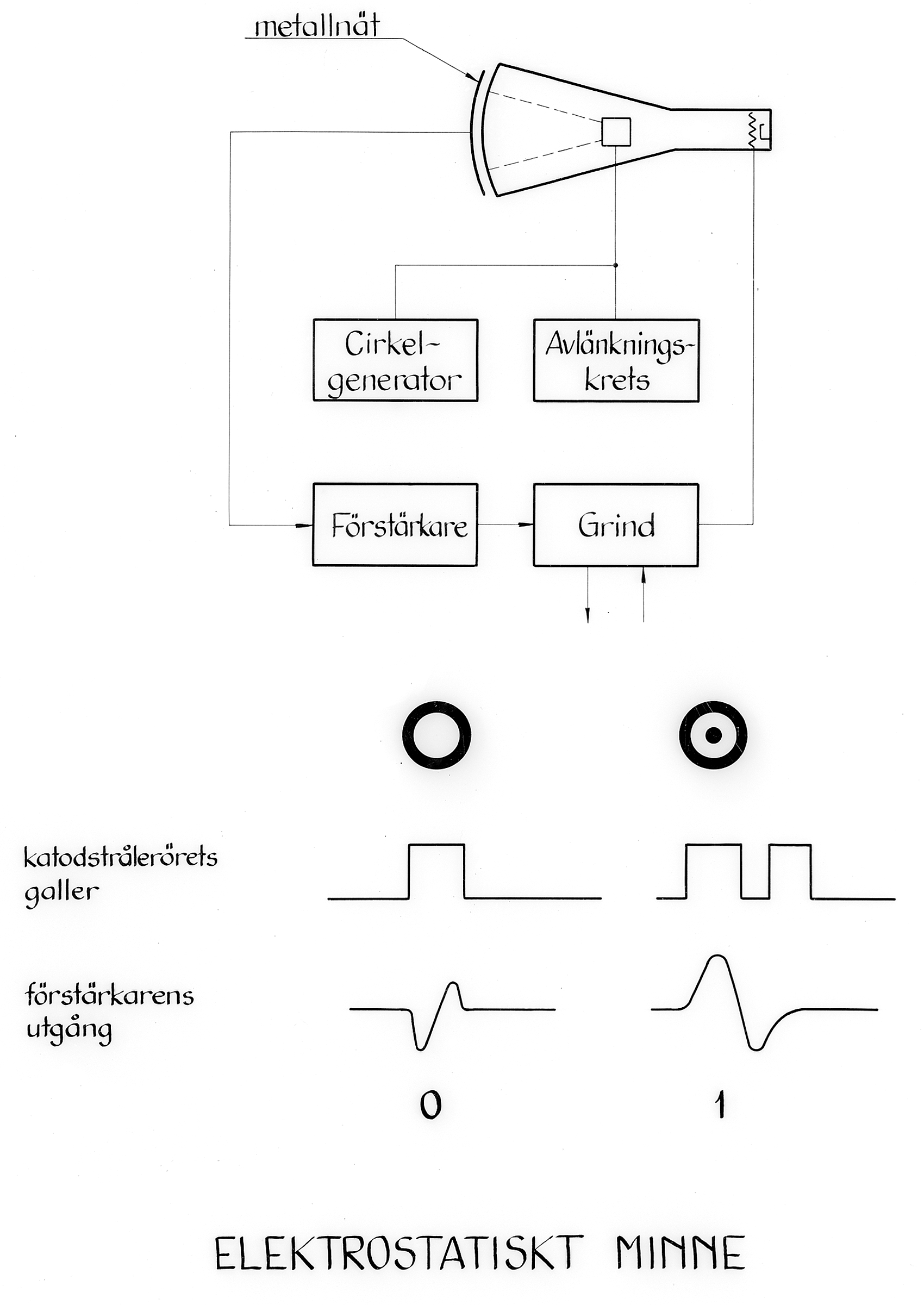 The Williams memory in the BESK computer used an elaborate coding with rings and dots, this illustration shows the principle behind it.